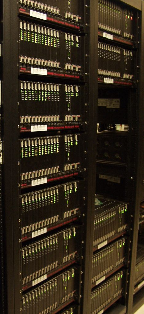 USR Robotics Modem banks at an ISP.